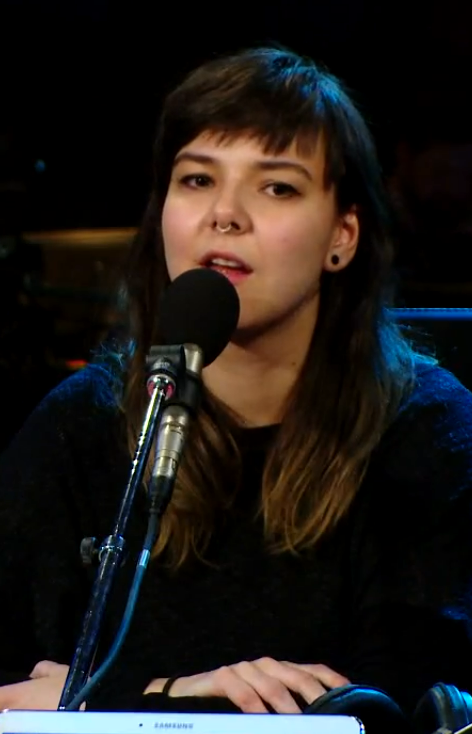 Nanna Bryndís Hilmarsdóttir at the Studio q.